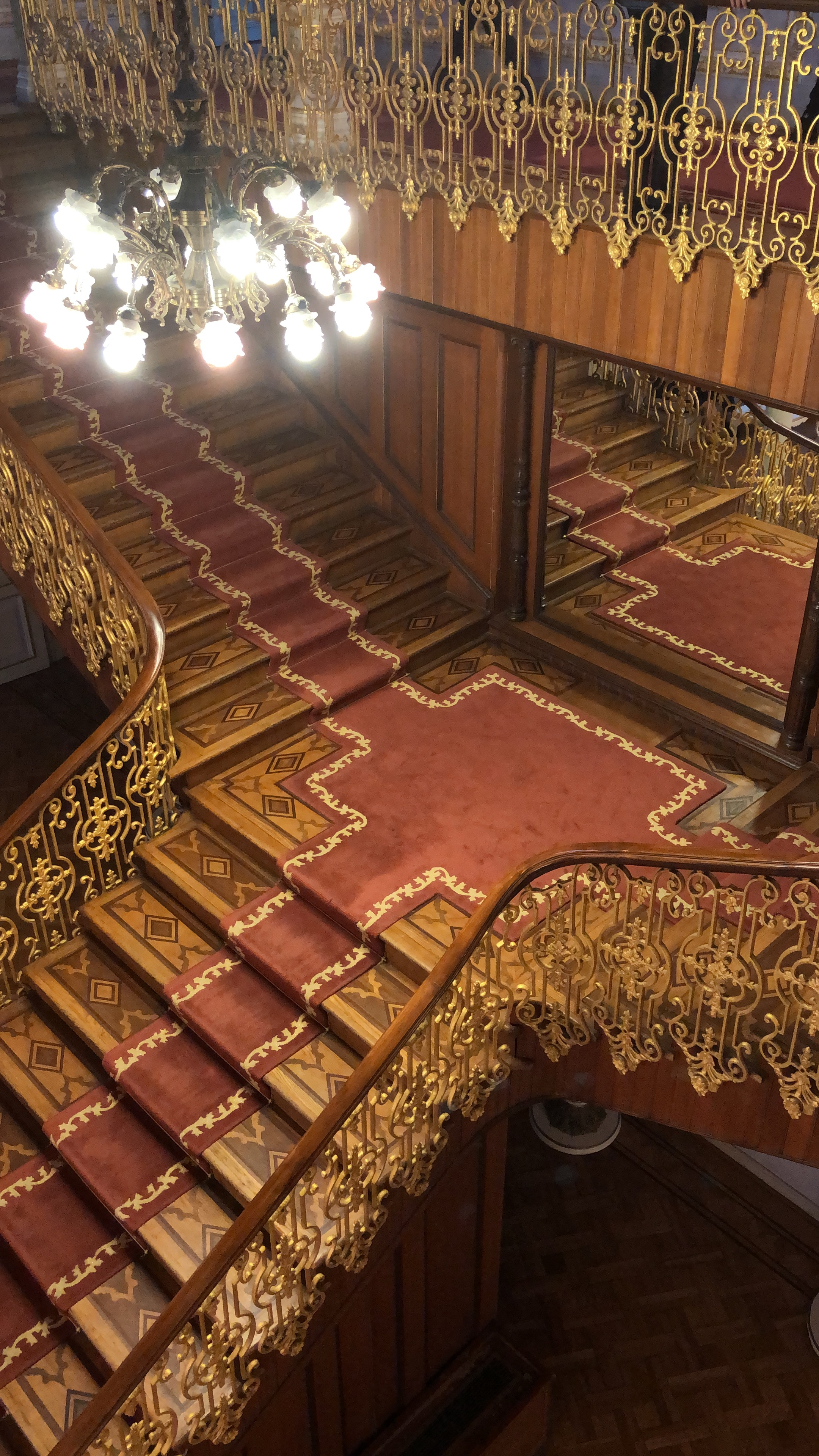 Sait Halim Pasa Yalisi